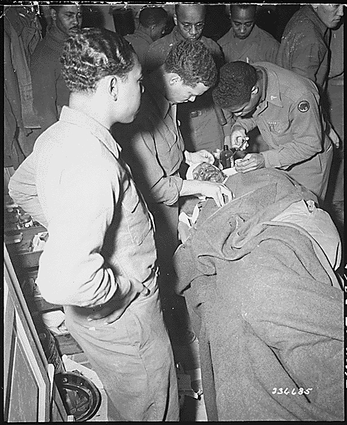 "Capt. Ezekia Smith, 370th Inf. Regt., 92nd Div., receives treatment at the 317th Collecting Station, for shell fragments in face and shoulders suffered near Querceta, Italy. Here, surgeon stitches the wound. Fifth Army, Pietrasanta Area, Italy.", 02/10/1945